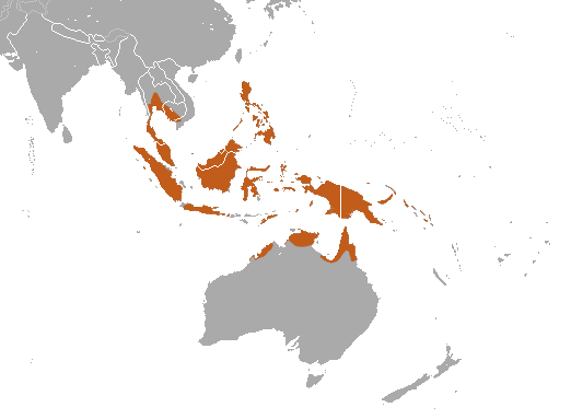 Long-tongued Nectar Bat (Macroglossus minimus) range